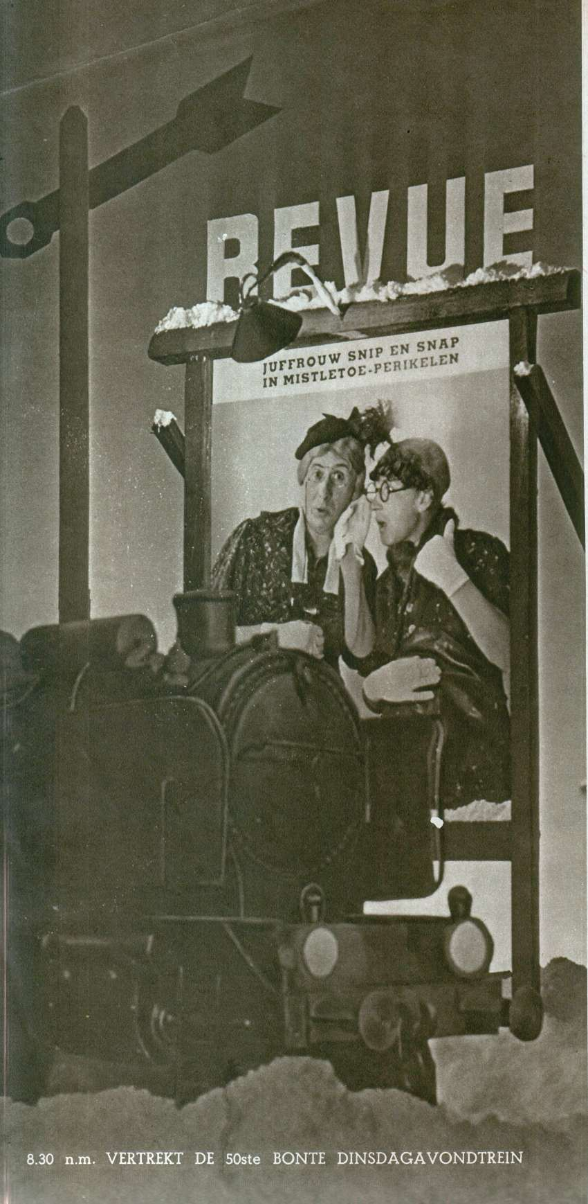 "Snip en Snap", a comic duo in a radioshow in the Netherlands in 1937.